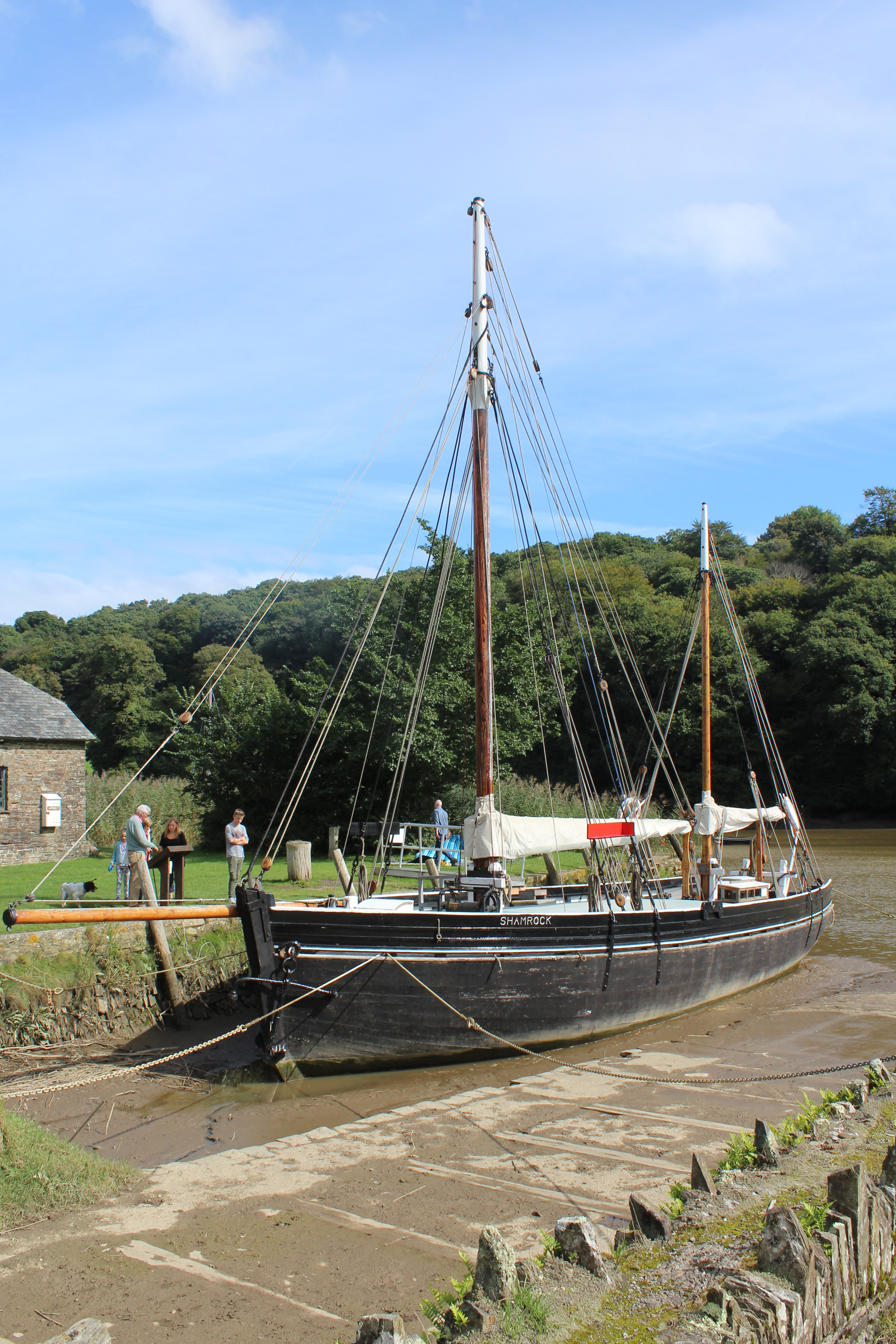 The Shamrock, a sailing barge built in 1899 that transported freight from Plymouth up the Tamar and also to nearby ports. She was laid up in a near-derelict state in 1973 and bought by the National Trust in 1975, towed to Cotehele Quay where she was restored and where she is currently on display.